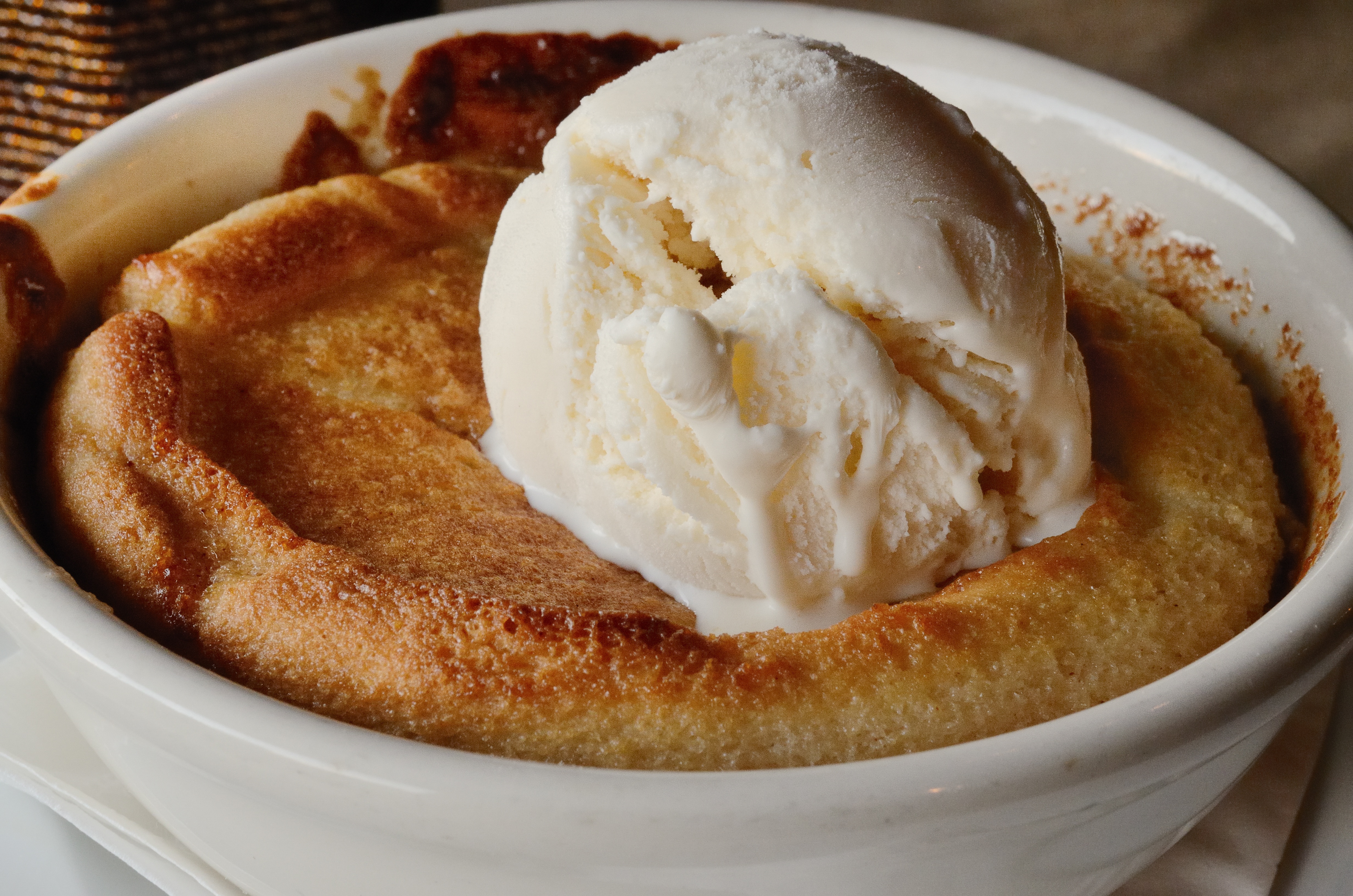 Another Peach Cobbler made by Patrick from his grandmother's recipe. We had dinner at Dyron's Lowcountry specifically to finish with the cobbler. We always enjoy Dyron's.